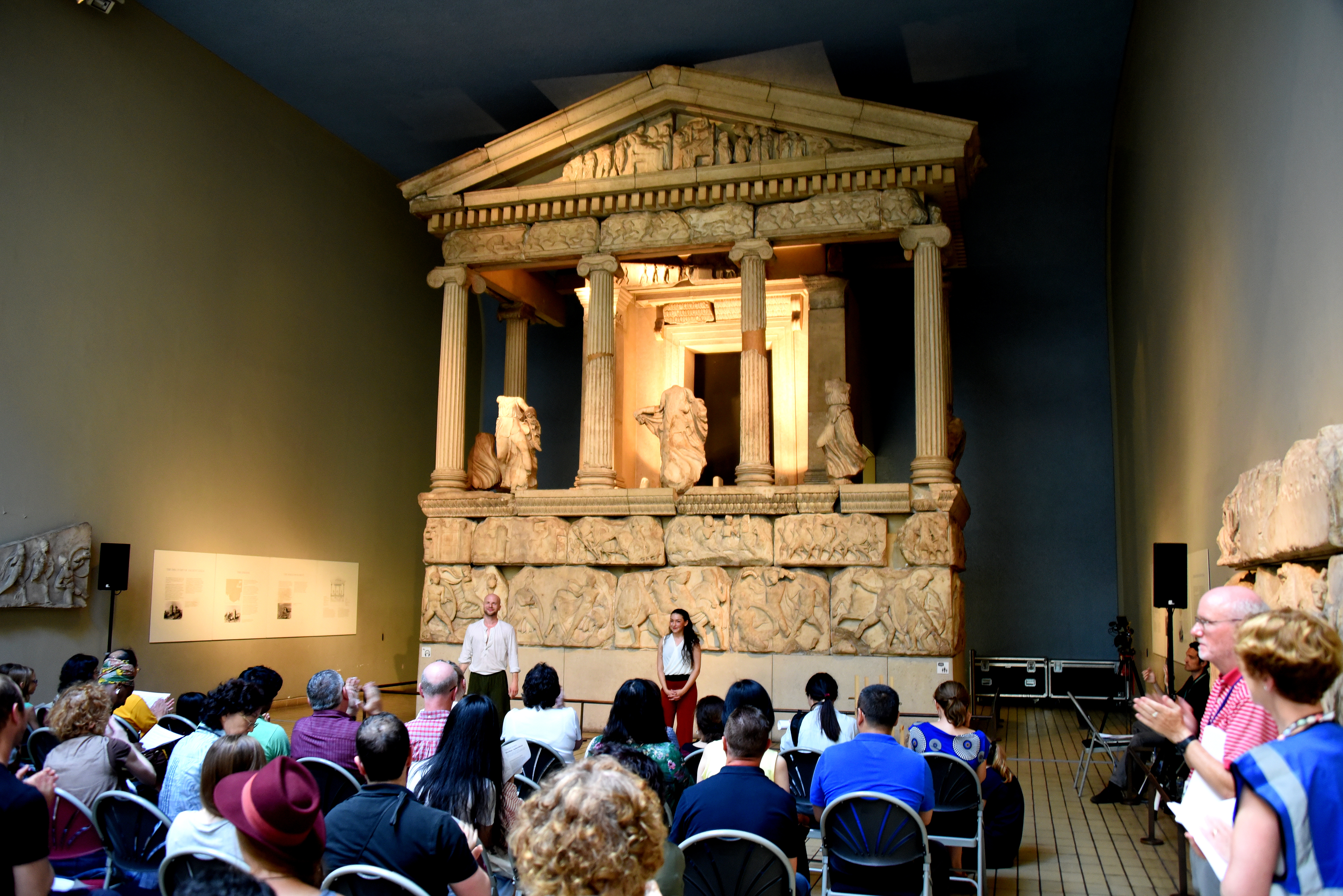 An actor and actress performing a play in front of the Nereid Monument, Room 17, the British Museum, London. The theatre company NMT Automatics performing Myths of an Island: Aeneas in Sicily in front of the Nereid Monument, Room 17, the British Museum, London. Actors Noah Young and Genevieve Dunne.